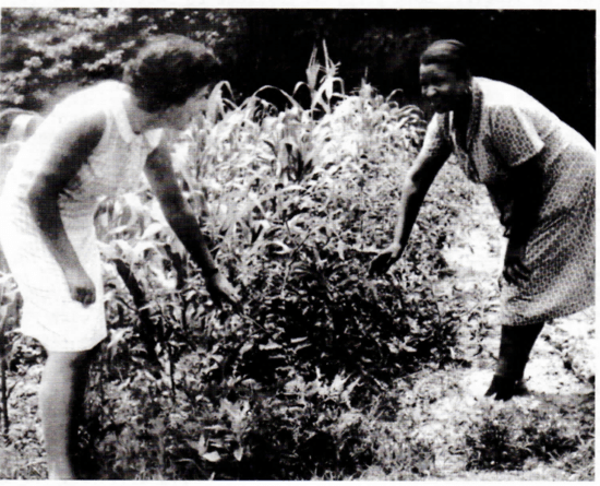 Two key leaders of Save Our Scotland (Joyce Siegel (L) and Geneva Mason (R)) in Scotland, 1965